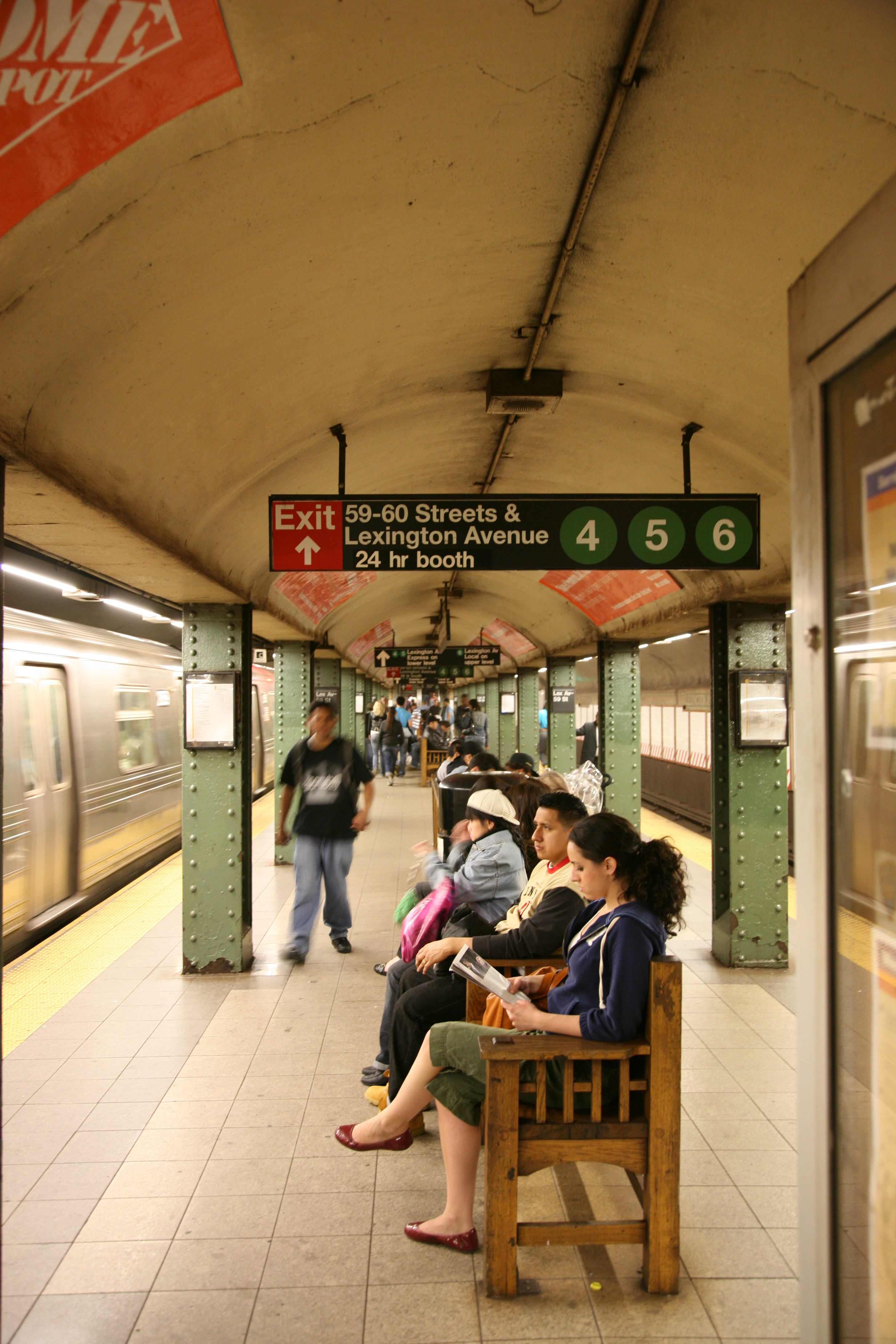 Lexington Avenue and 59th Street station, New York City Subway